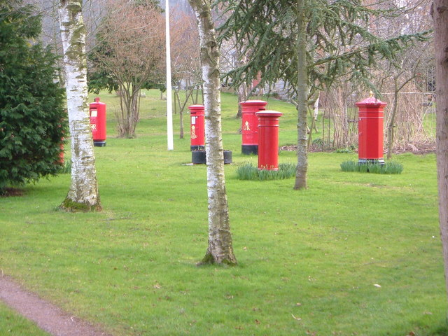 Letter box collection